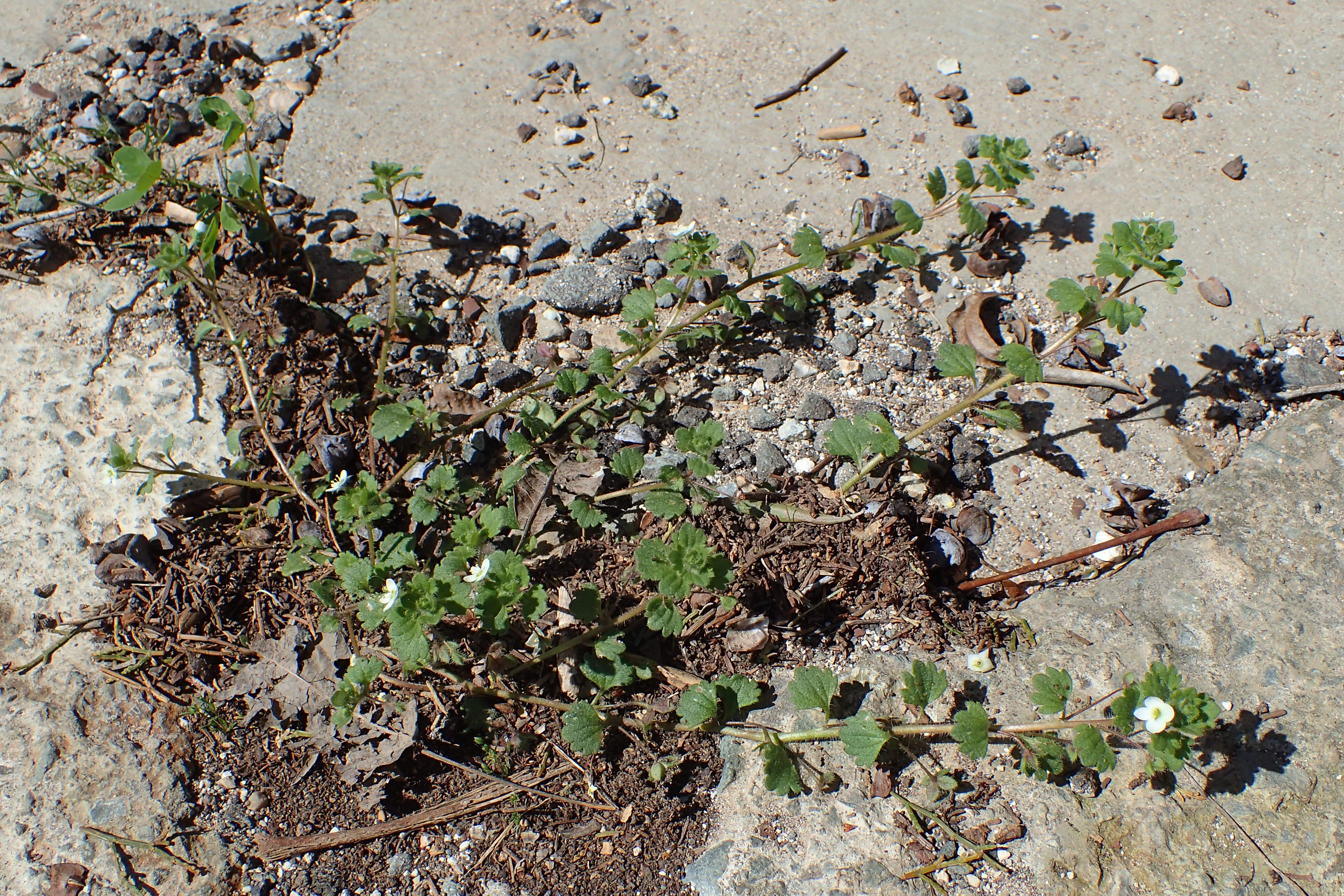 Veronica cymbalaria in Kato Arodes, Cyprus